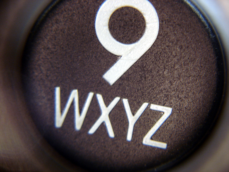 Macro photo of the number 9 button on a telephone keypad